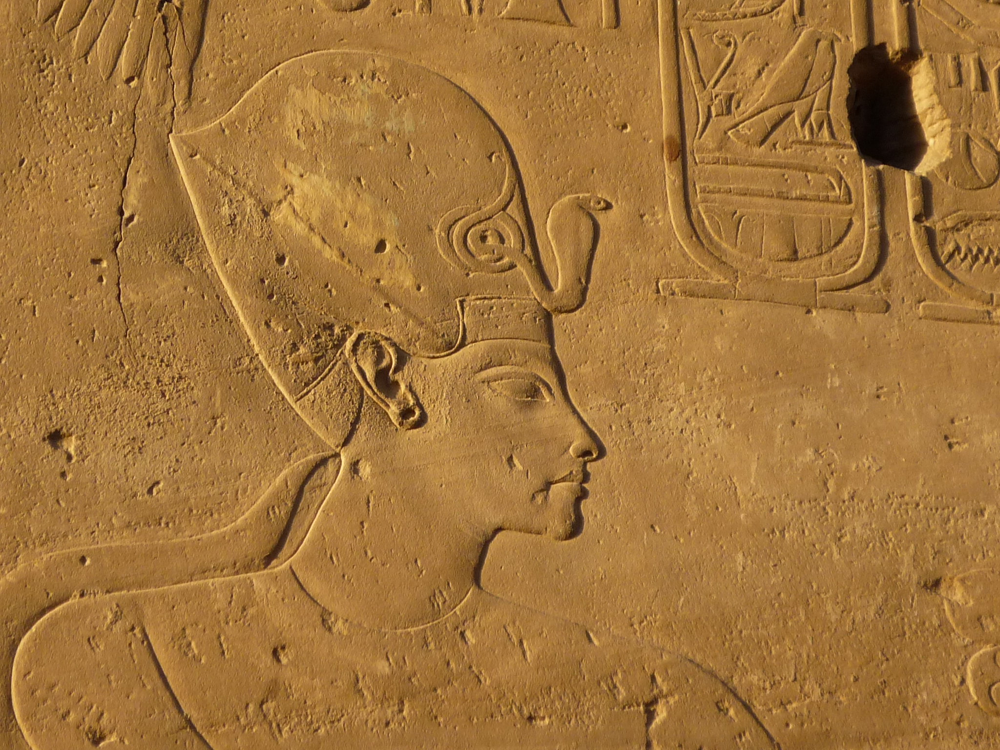 Wall relief of Horemheb on a column of the colonnade of Amenhotep III, Luxor Temple, Egypt